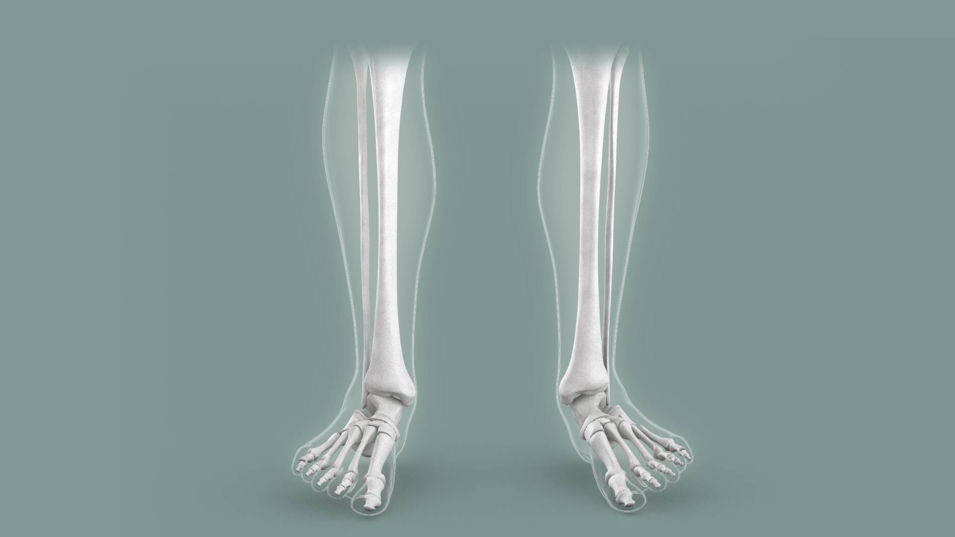 Big toe and second toe pushes off the ground resulting in an uneven distribution of body weight.